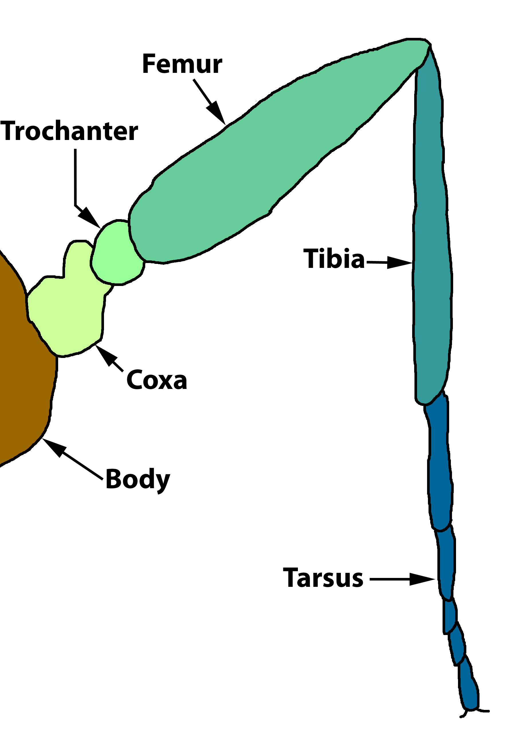 The ancestral form of the insect leg, showing the five named parts. Evolution has eliminated parts or greatly modified parts in some insects.